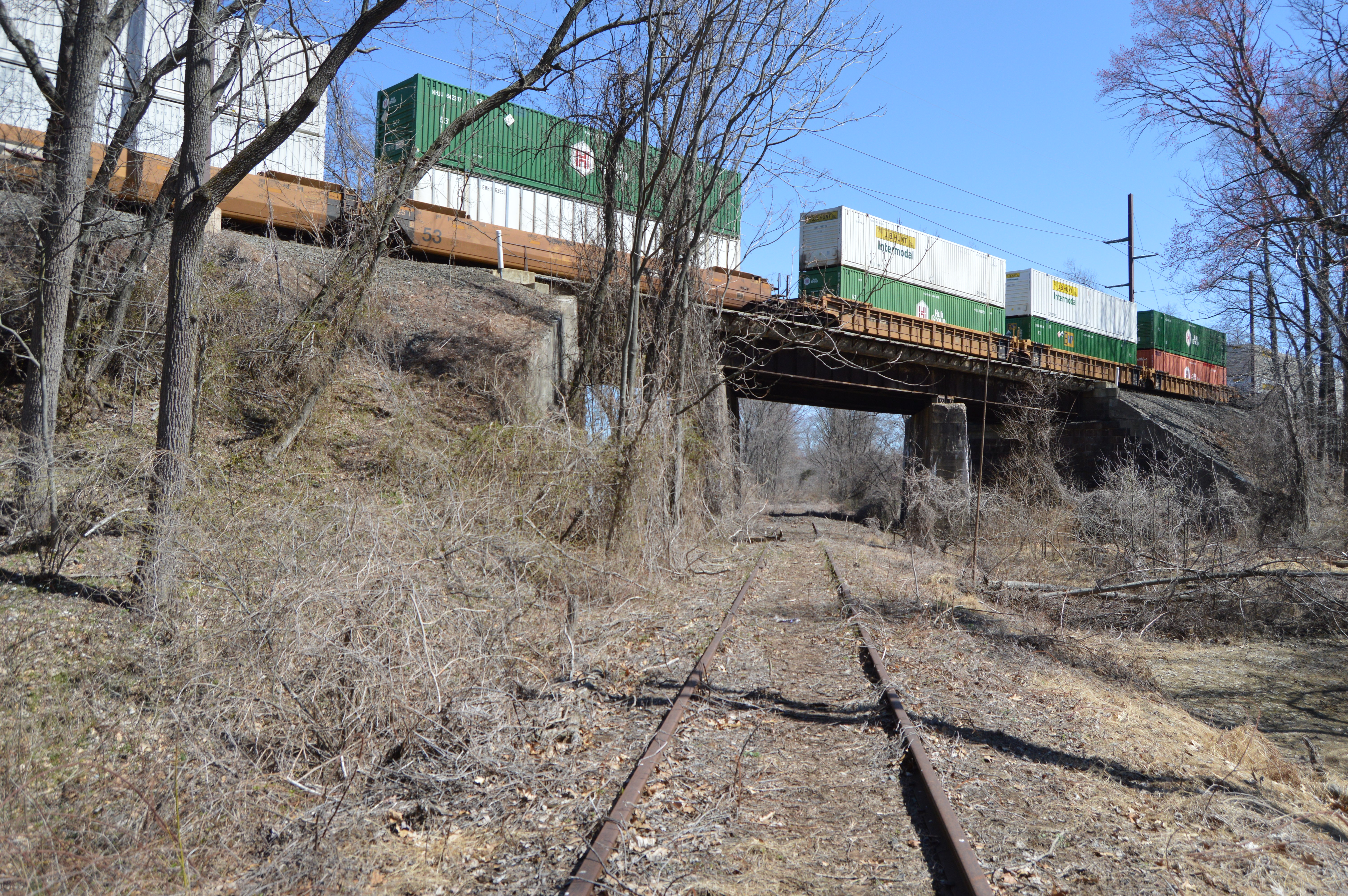 A train on the Trenton Cutoff passes over the former Newtown Line in April 2015